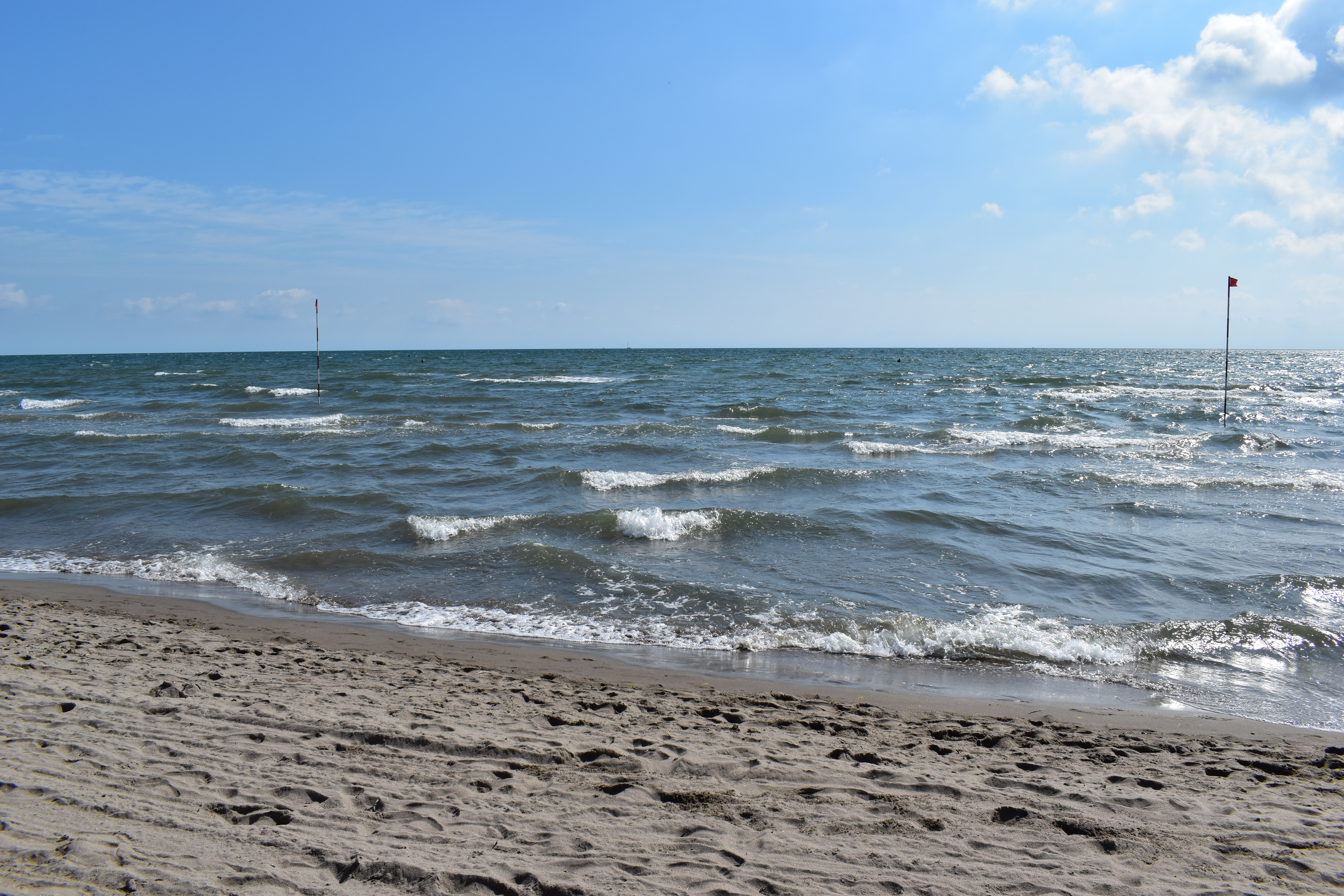 Beaches of Rosolina Mare resort.